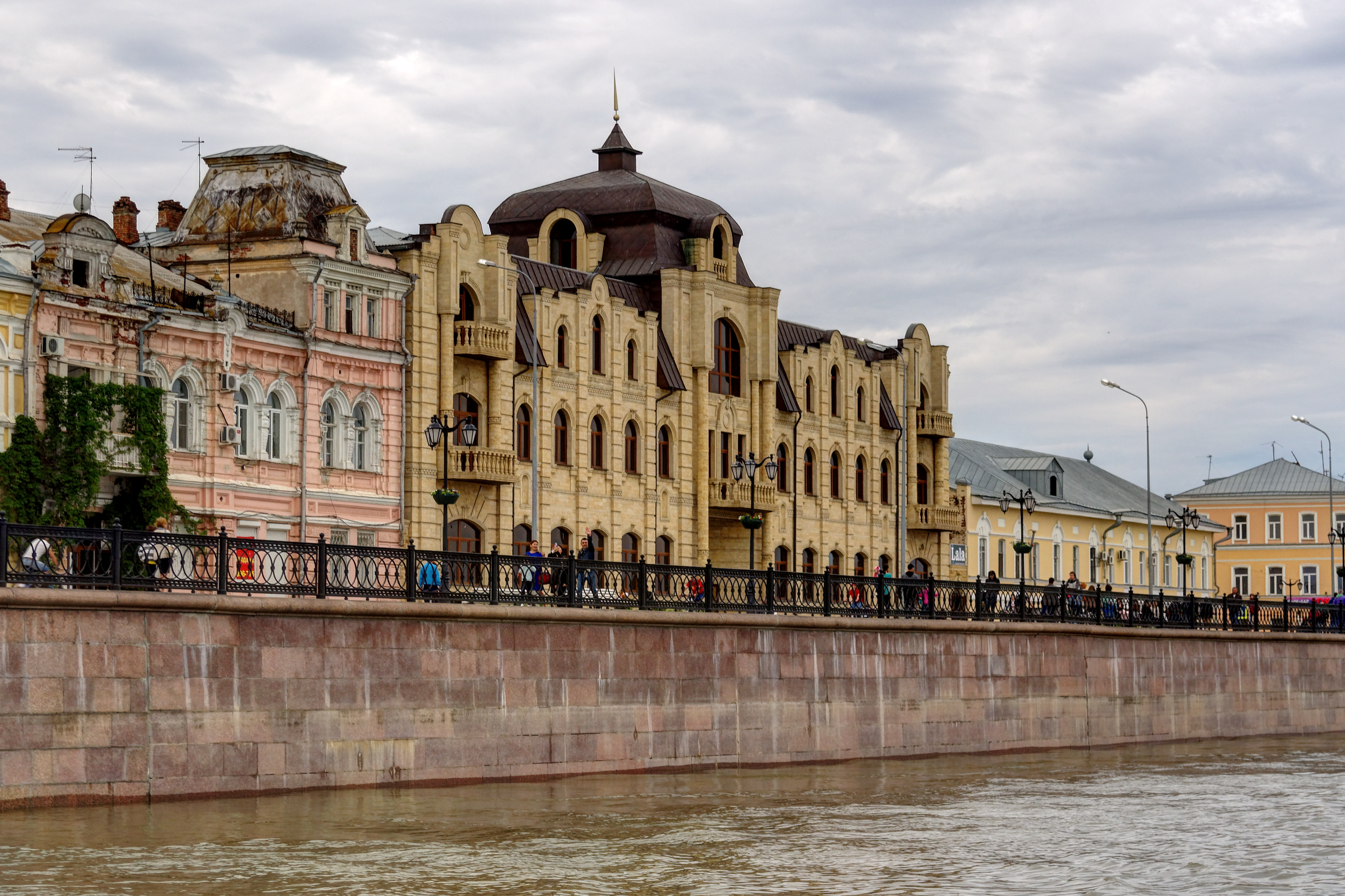 Astrakhan